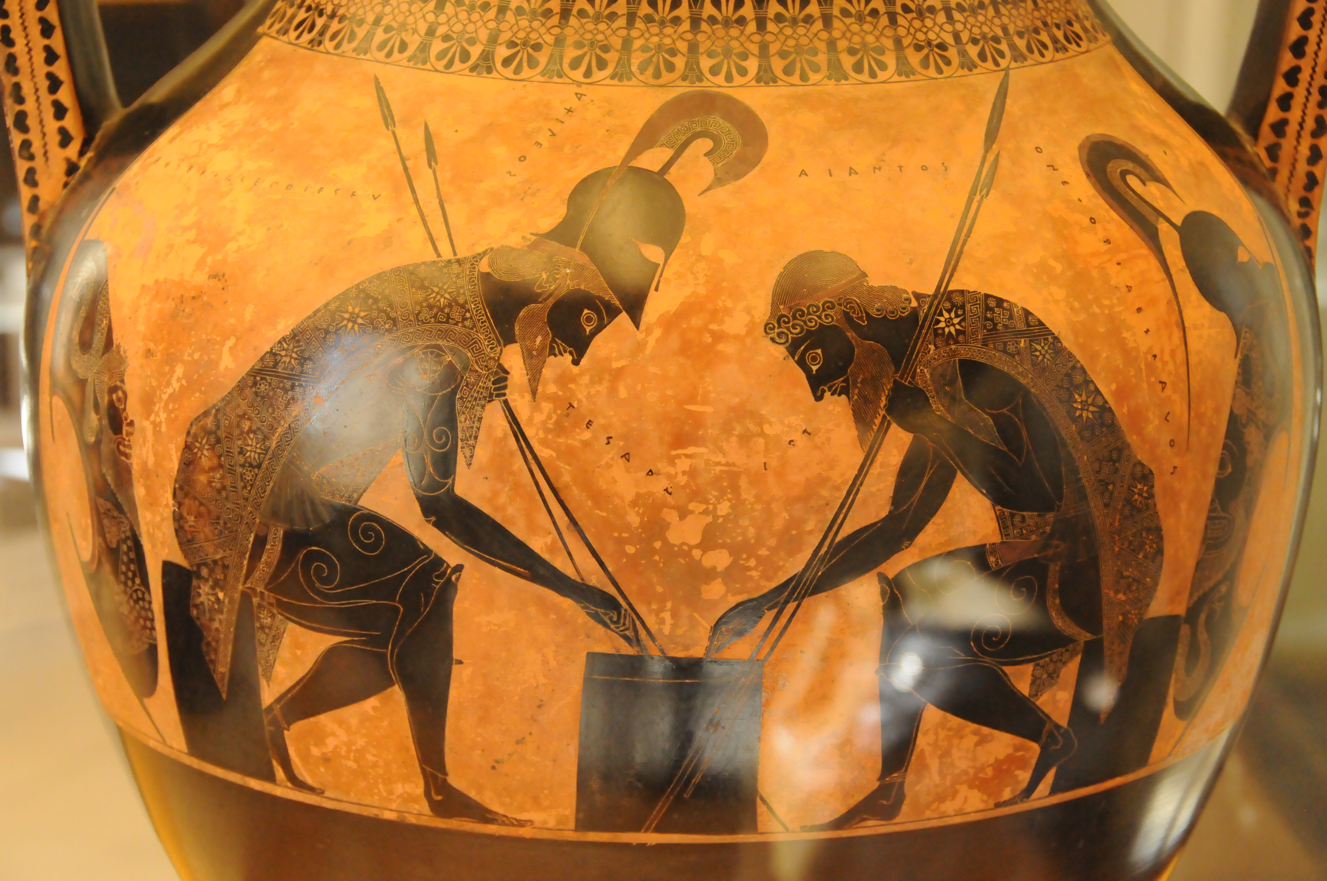 Attic amphora by Exekias depicting Achilles and Ajax playing a game during the Trojan War.